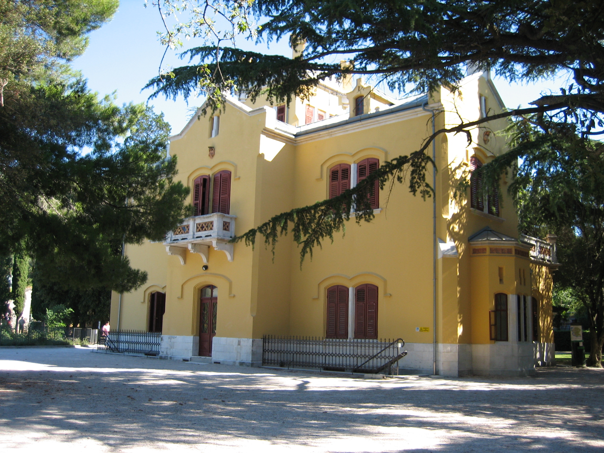 Castelletto in the park of Miramare, Trieste